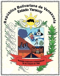 Independence Township Shield (Yaracuy),Venezuela